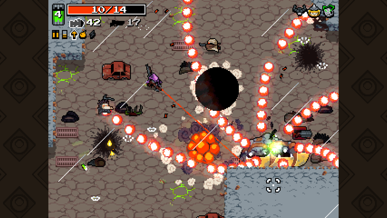 Screenshot from 2015 video game Nuclear Throne